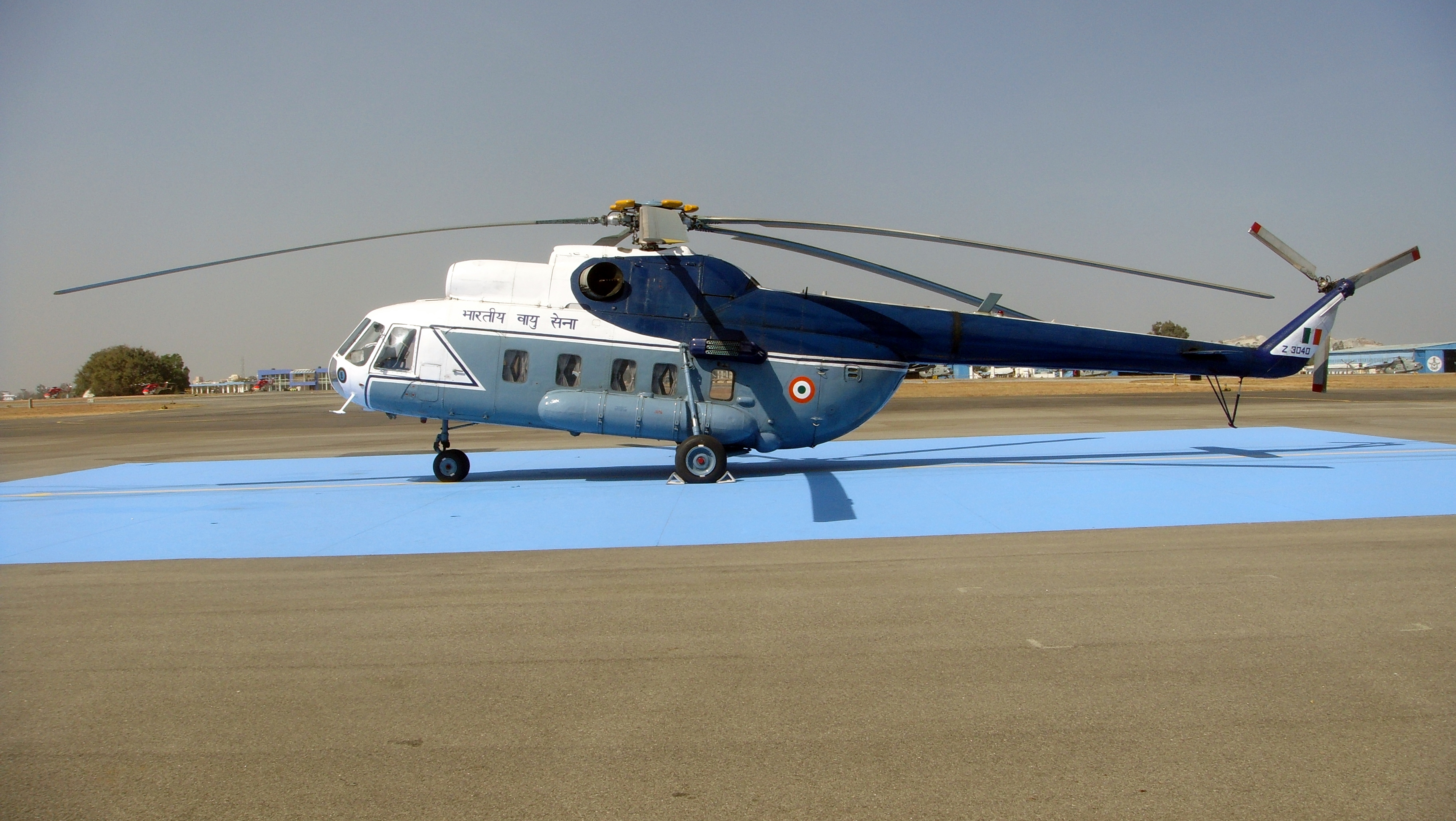 Indian Air Force Mi-8 for VIP Transport at Aero India 2013